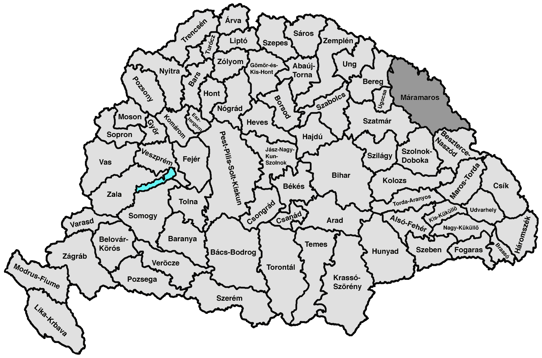 own edit of Image:Zala.png